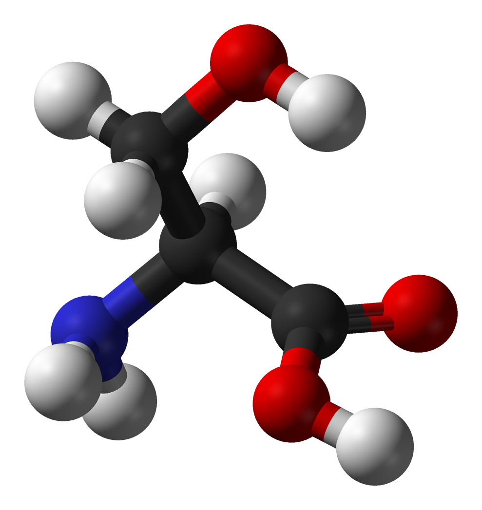 Ball-and-stick model of the L-serine molecule, one of the 20 common amino acids used by living organisms to form proteins.